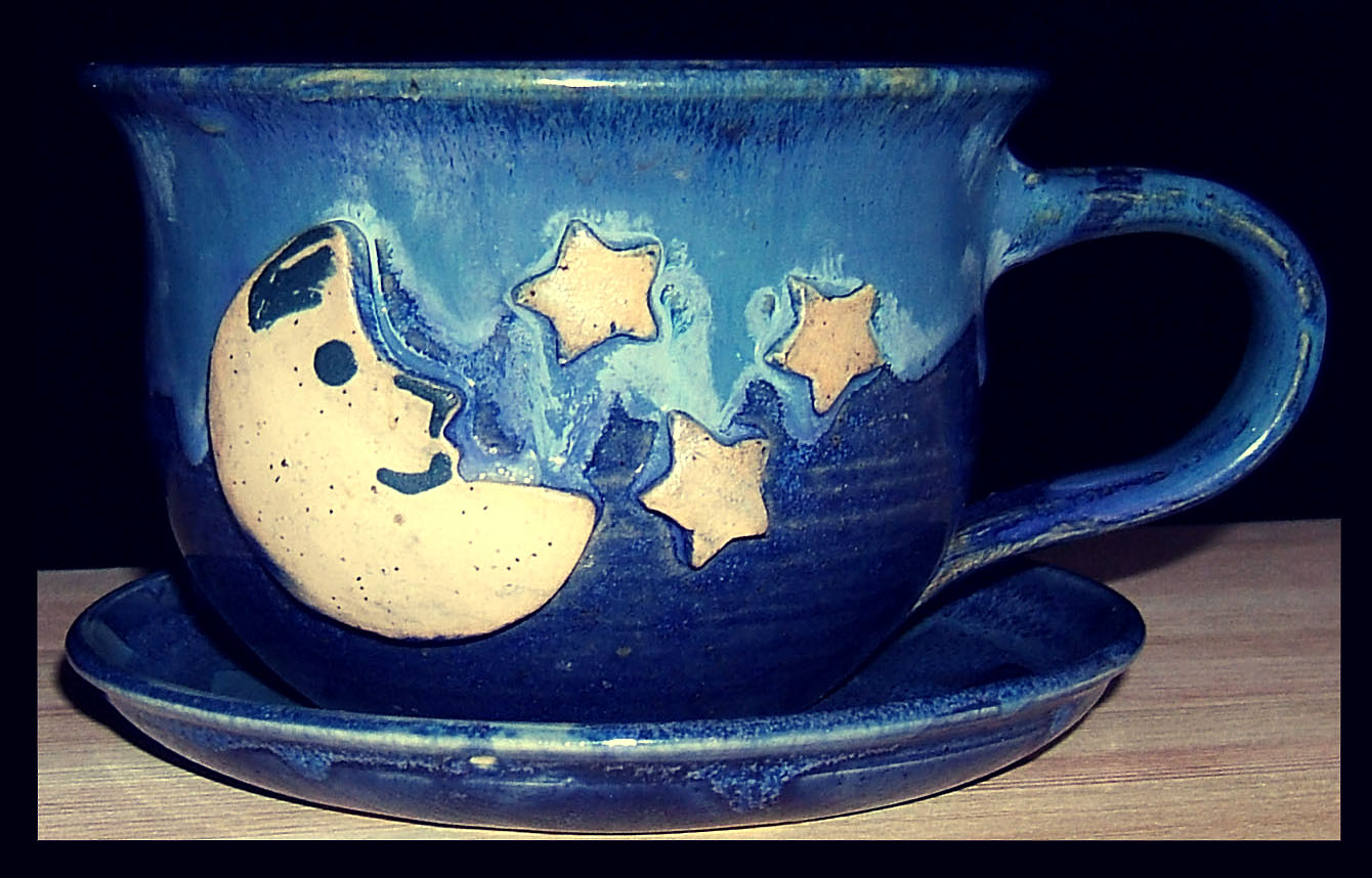 large handmade ceramic cup with moon and stars